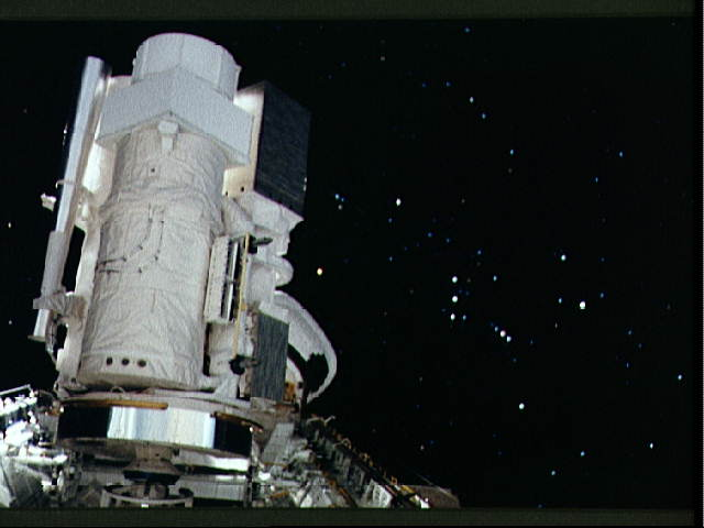 Astro-1 mission in orbit (during STS-35 Endeavour Shuttle flight). STS-35 Astronomy Laboratory 1 (ASTRO-1) telescopes, in onorbit operating configuration, are documented in the payload bay (PLB) of Columbia, Orbiter Vehicle (OV) 102. To the right of the ASTRO-1 components is the Orion nebula. Three ultraviolet telescopes are mounted and precisely coaligned on a common structure, called the cruciform, that is attached to the instrument pointing system (IPS). Visible here are the star tracker (S TRK) (silver cone at the far left), the Hopkins Ultraviolet Telescope (HUT), and the Wisconsin Ultraviolet Photo-Polarimeter Experiment (WUPPE) (at top right).